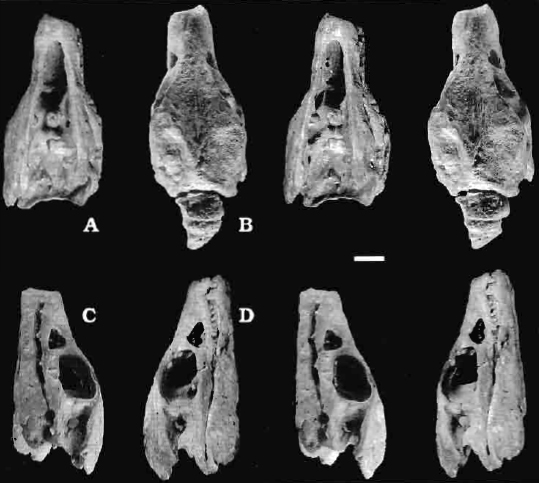 Gobiosuchusk kielanae Osmólska,1 9'72f rom the DjadokhtaF ormationo f Baln Dzak. A D. photographosf skull with articulatedm andibie (ZPAL M-eR-II/69).r 'enral. dorsal.] eft and right lateralv iews;i n B, pairedn uchalo steodermsa ndt wo paireda nteriorc en ical osteodermvsi sible.